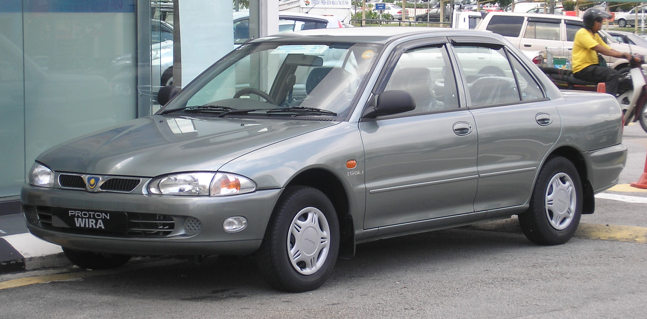 Front-side shot of an unregistered first generation, second facelift Proton Wira (saloon), in Serdang, Selangor, Malaysia.